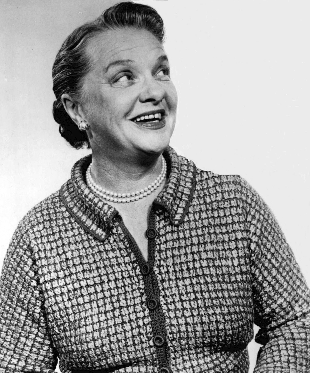 Photo of actress Grace Stafford, who was the wife of Woody Woodpecker creator Walter Lantz; she was also the voice of Woody Woodpecker.